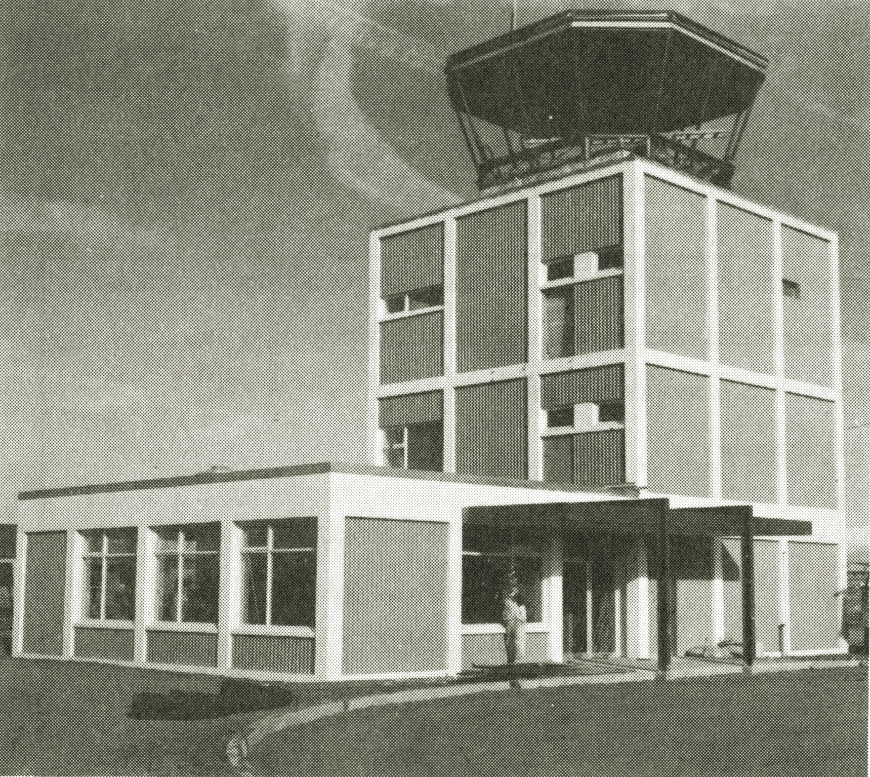 The old tower of Merrill Field prior to its completion in 1961. This structure also contained airport offices and a pilot's lounge. Contrails can be seen overhead. The accompanying text mentions that the building was complete at this point apart from the installation of air traffic control equipment by the FAA, which was expected to take place into the following year. A replacement tower was constructed adjacent to East Fifth Avenue, or to the north and east of this tower on the other side of the east-west runway, around the turn of the 21st century. See File:Anchorage Alaska Aviation Museum (40131455840).jpg for the present setting of the air traffic control cab of this tower.